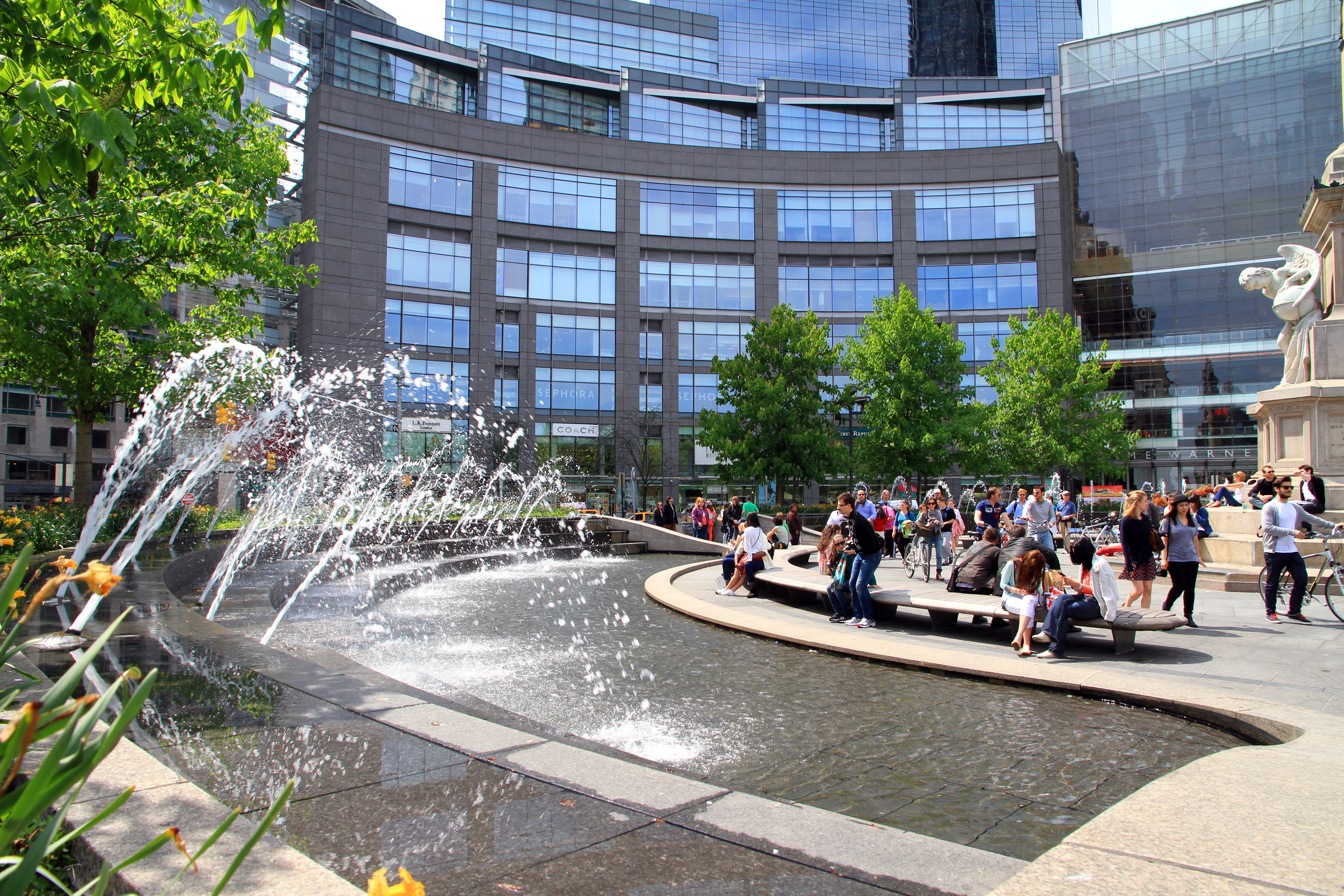 Columbus Circle